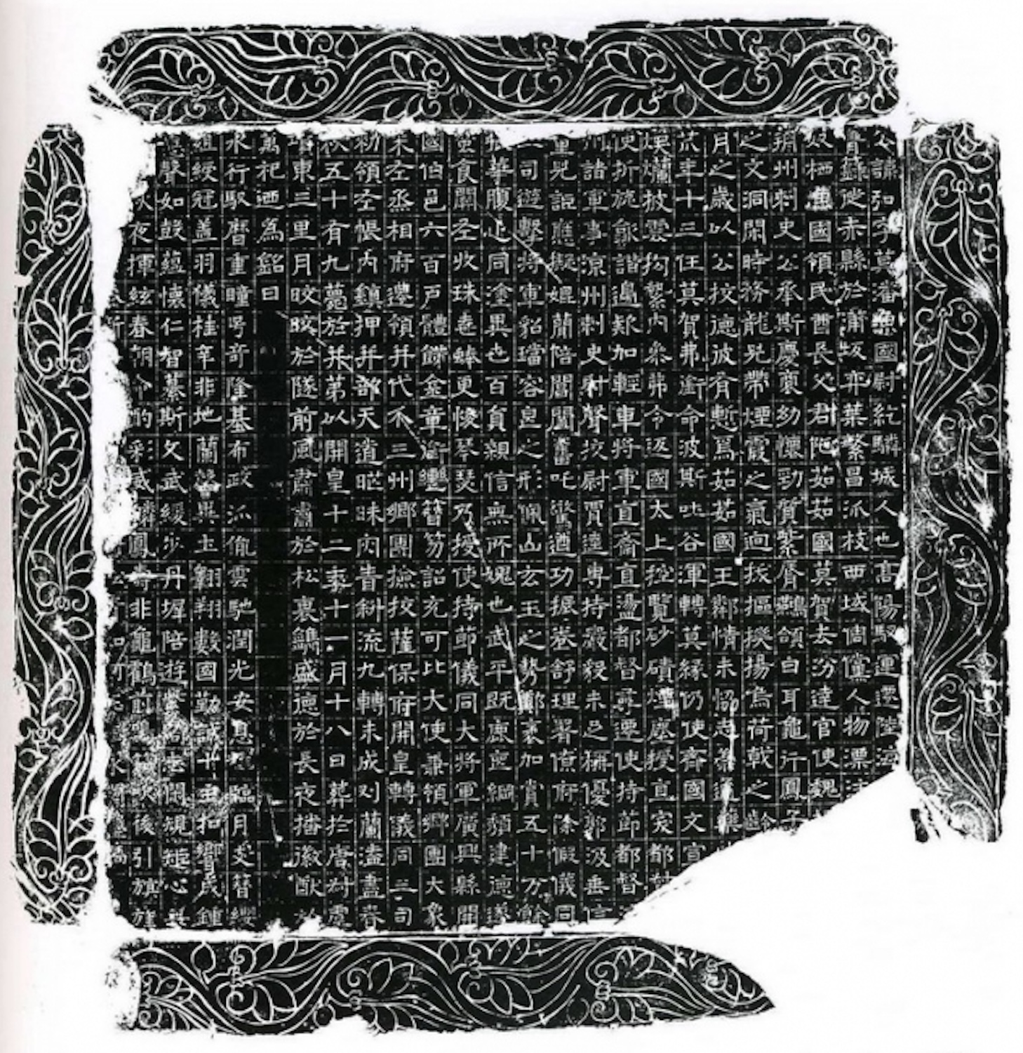 The rubbing of Yü Hung’s epitaph.